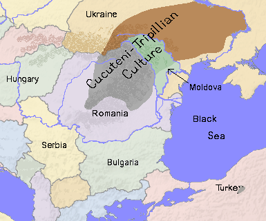 A map of the approximate extent of the Neolithic Cucuteni-Trypillian culture. I created this map using Microsoft Paint, version 5.1, and consulting various online and print sources to approximate the culture's extent. This is an original work created by myself. The older file (Jan. 13th) is innaccurate - don't use it. The new file (Jan. 19th) is fairly approximately accurate.